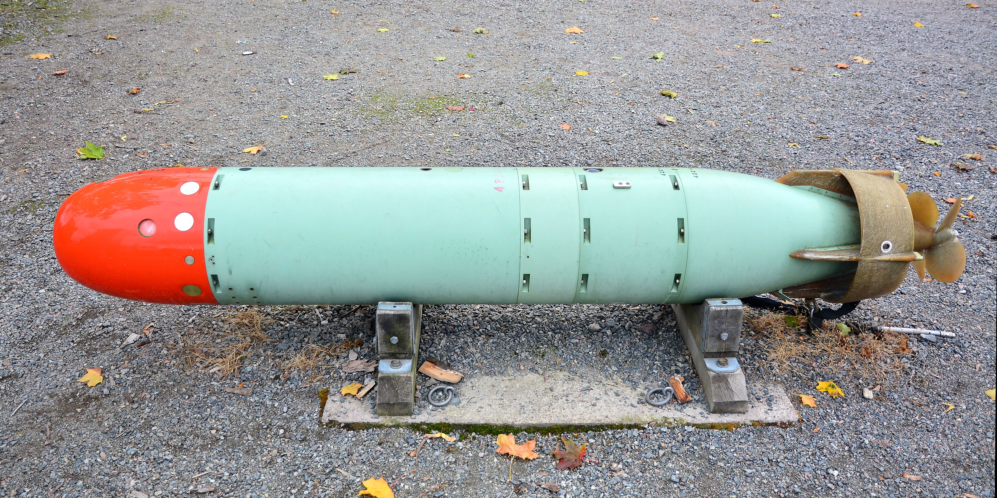 Torpedo 422 is a Swedish 400 mm anti-submarine torpedo.